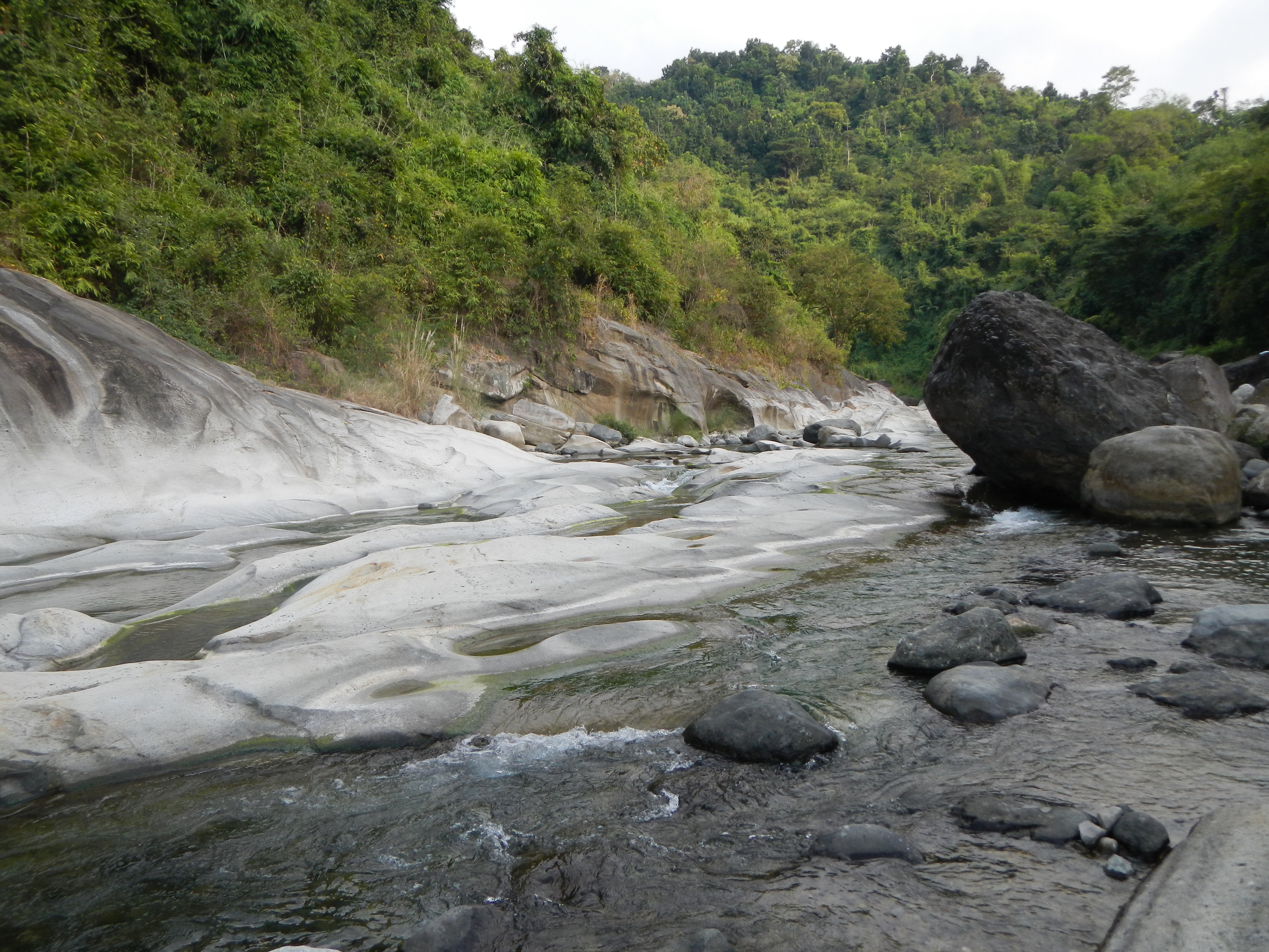 Tapuakan River and Resort (the cleanest river in Region I) Pugo, La Union[1]